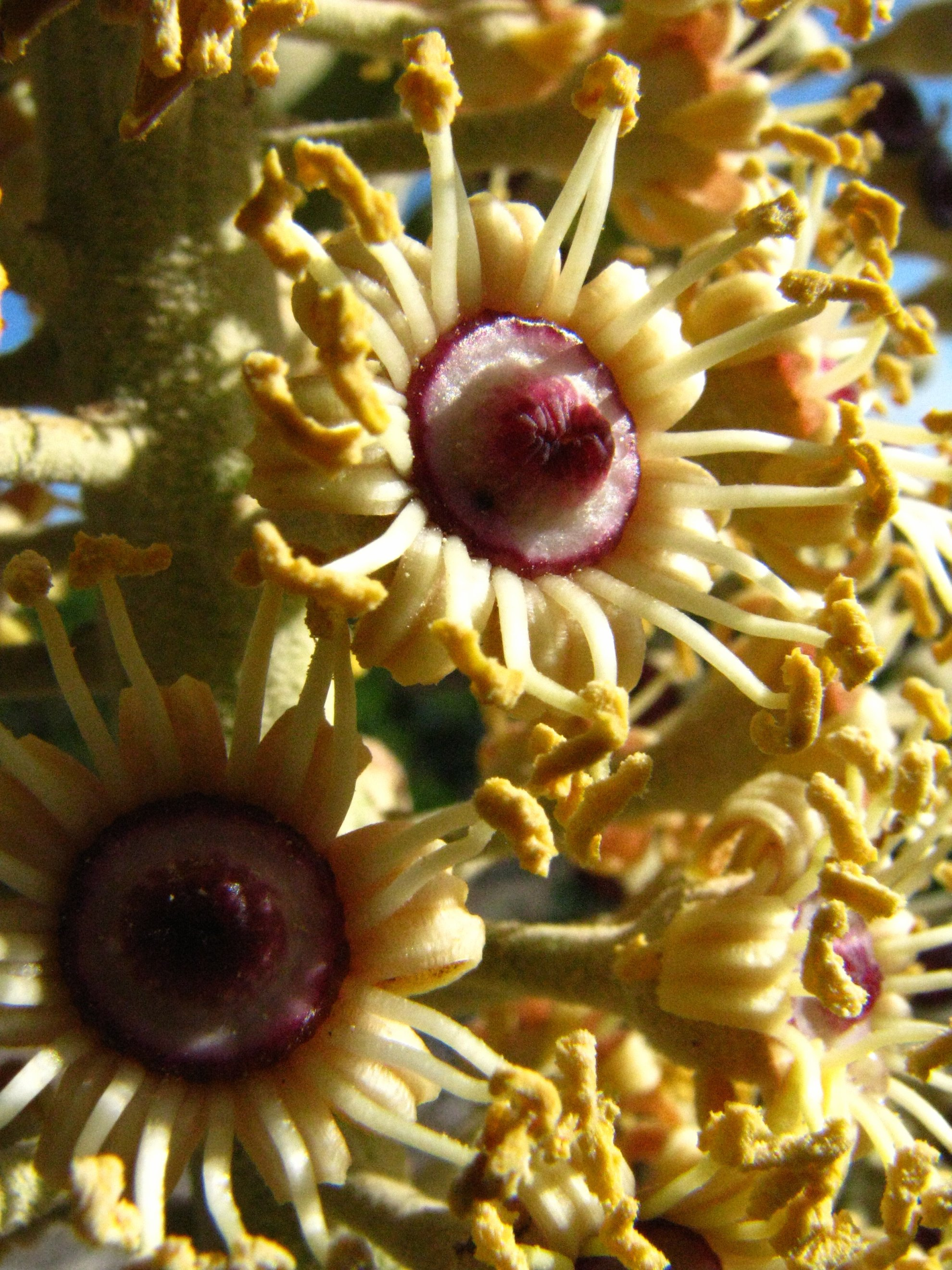 [syn. Munroidendron racemosum] Pōkalakala or Munroidendron Araliaceae Endemic to the Hawaiian Islands (Kauaʻi only) Oʻahu (Cultivated)